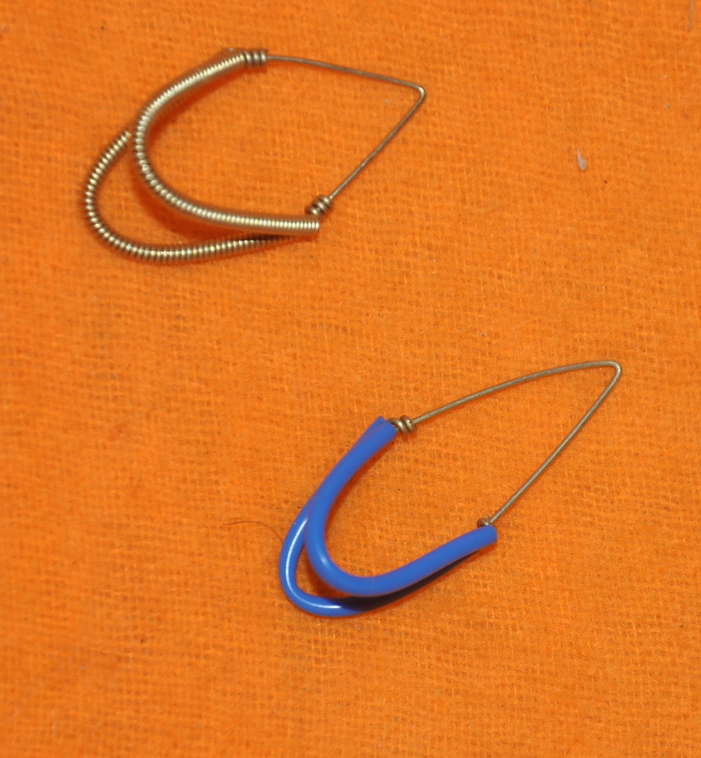 Misrab, striker used to play sitar